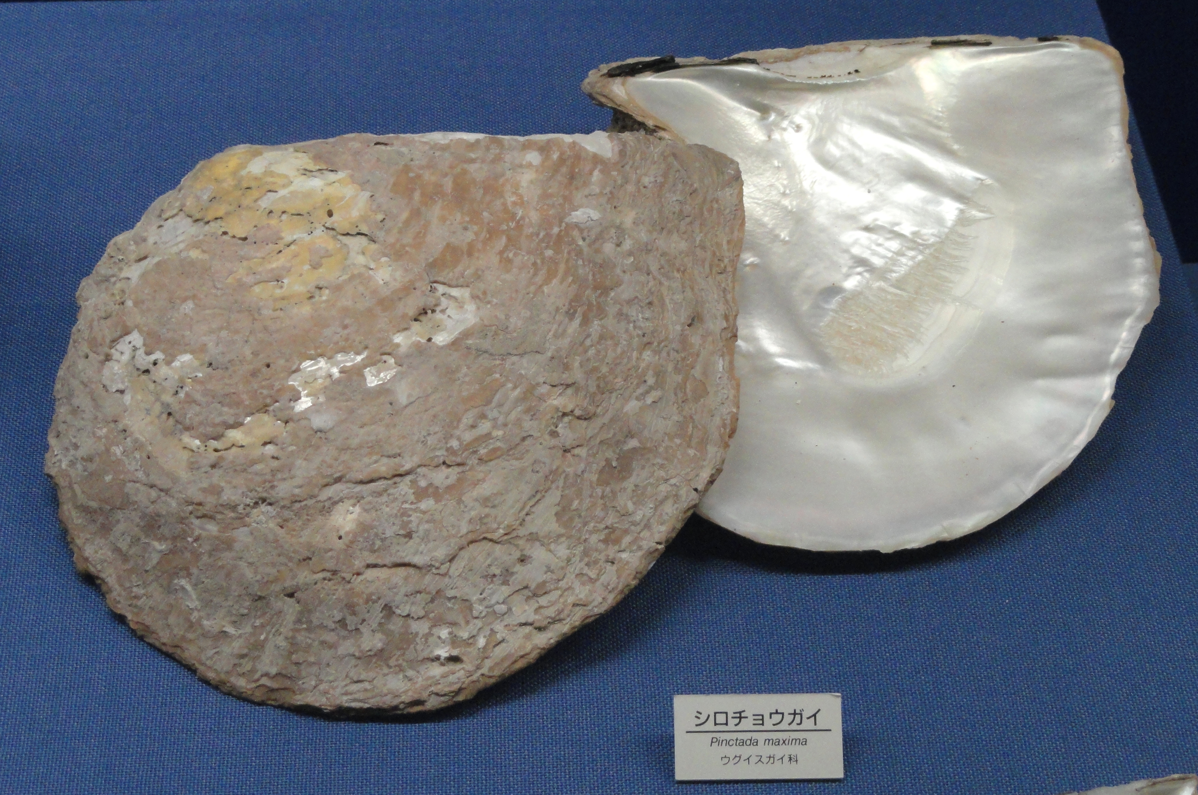 Exhibit in the Osaka Museum of Natural History, Osaka, Japan.